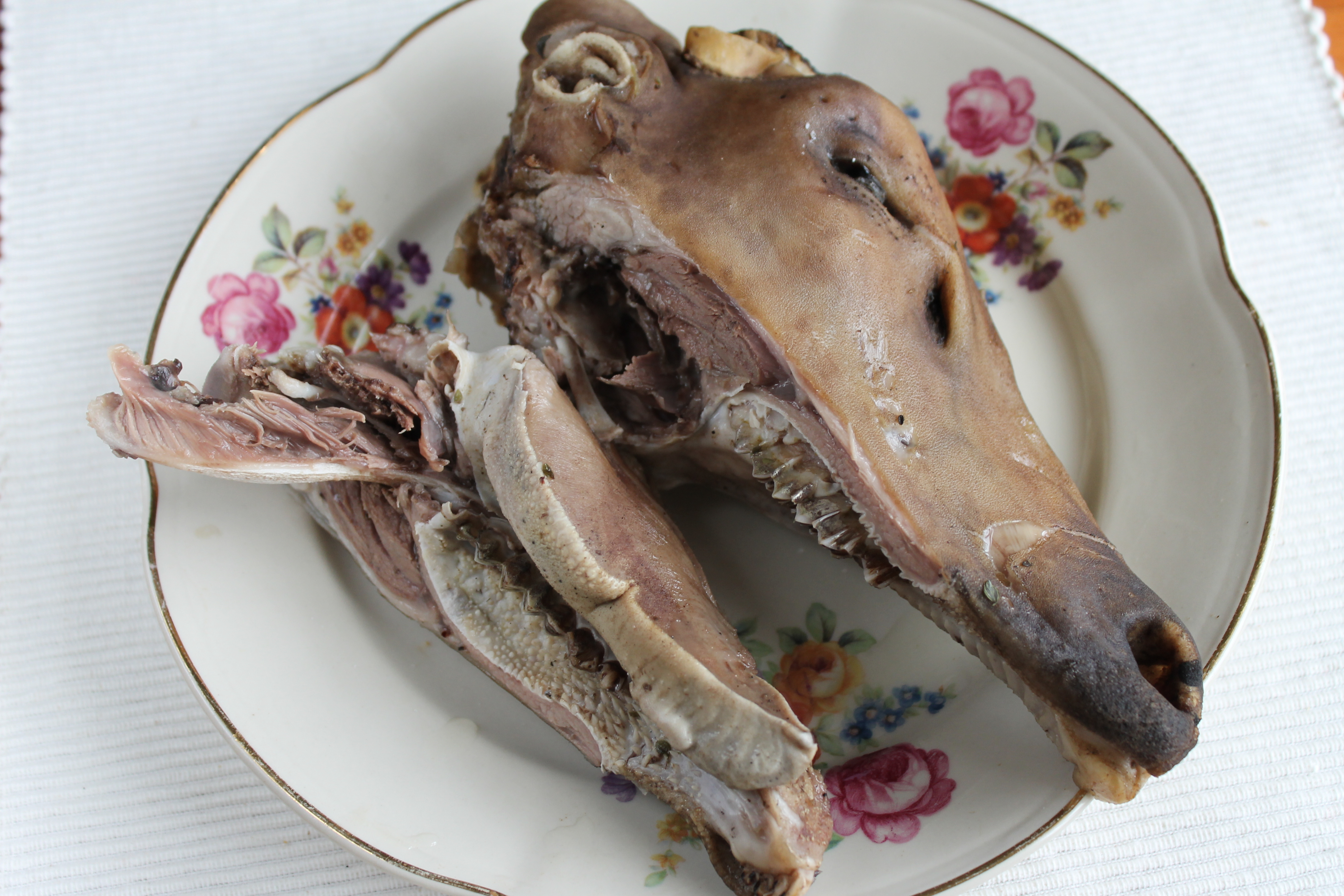 Icelandic svið; half a head (kjammi), cooked and split.